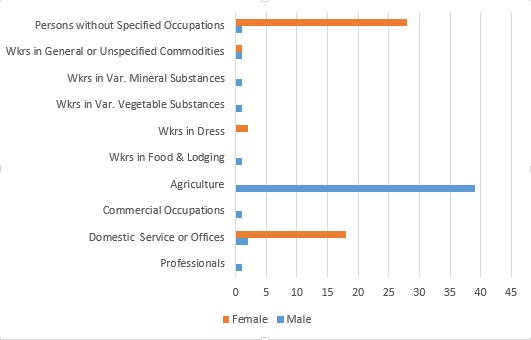 Total Population of Kirstead Parish, Norwich, as reported by the Census of Population from 1881-2011.